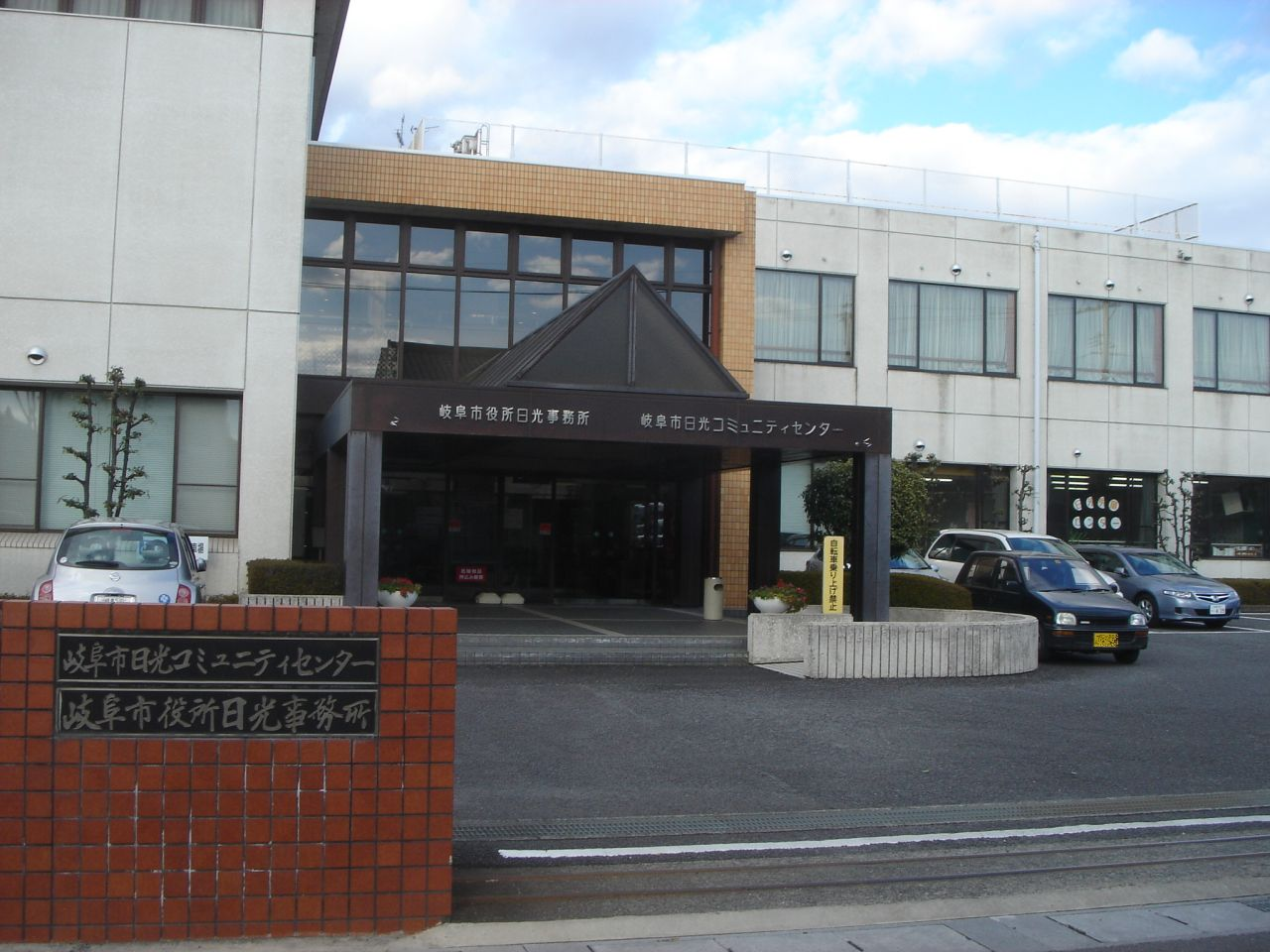 Gifu City Nikko Community Center（岐阜市日光コミュニティセンター）,Gifu,Gifu,Japan(岐阜県岐阜市日光町9丁目)で撮影。